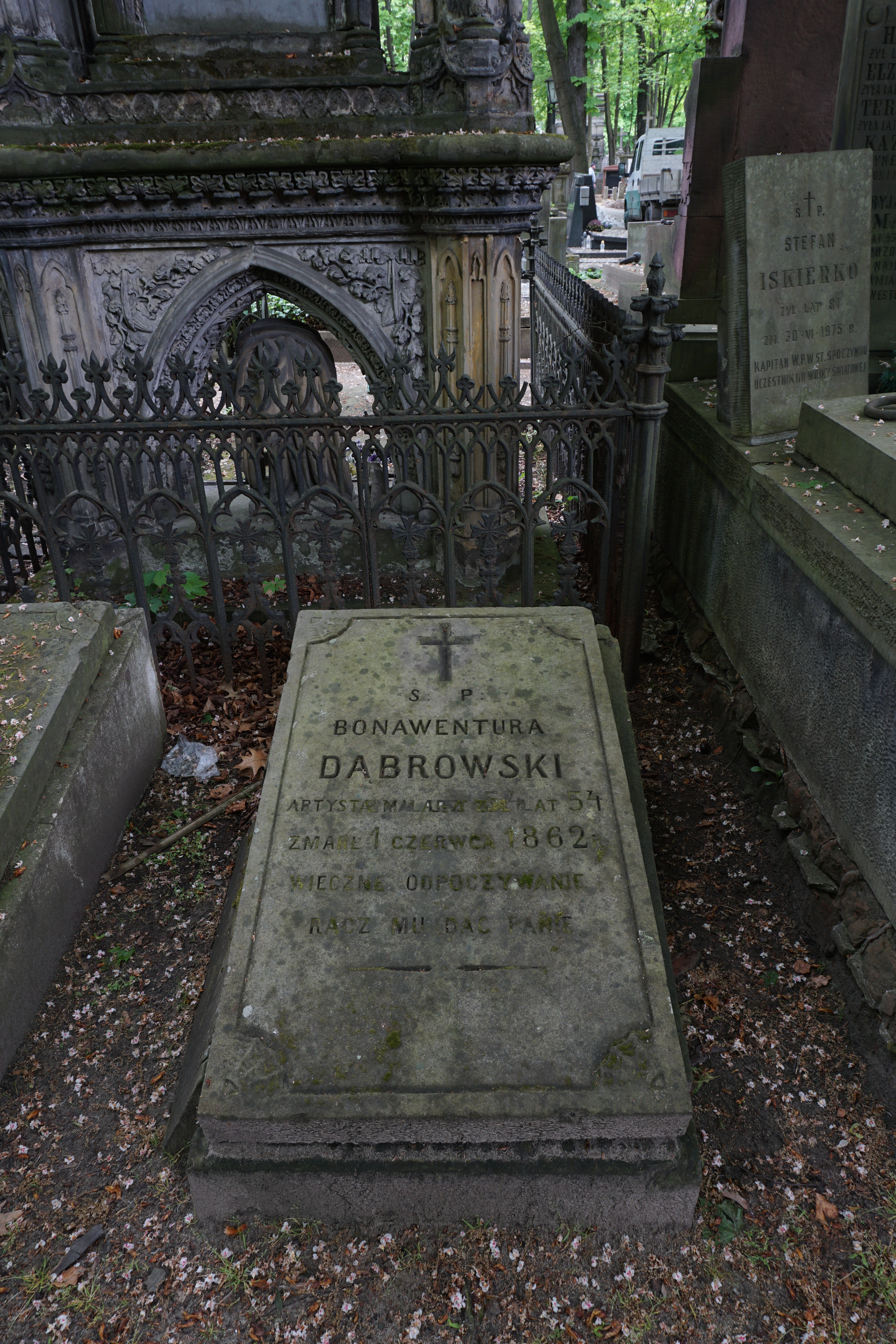 The grave of Bonawentura Dąbrowski at the Powązki Cemetery (section 12, row 3, grave 3)